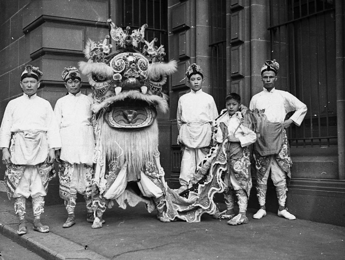 from the state library collection of nsw